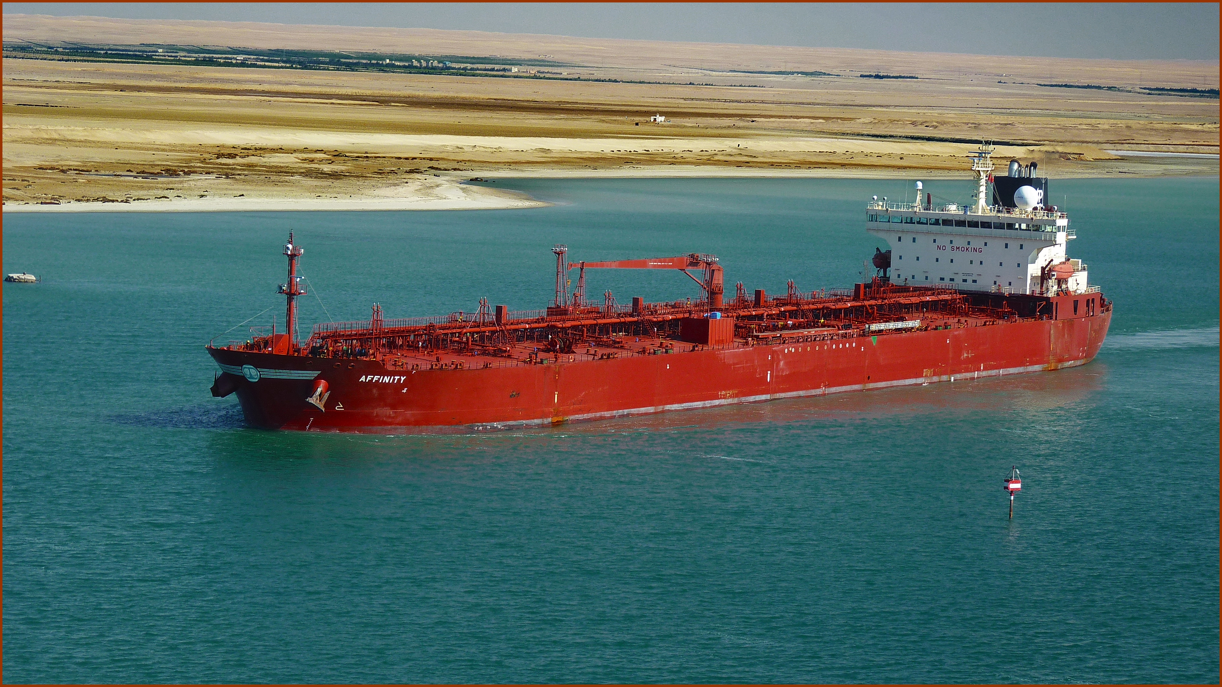 Oil products tanker Affinity (IMO: 9289776, MMSI: 564719000) transits the Suez Canal